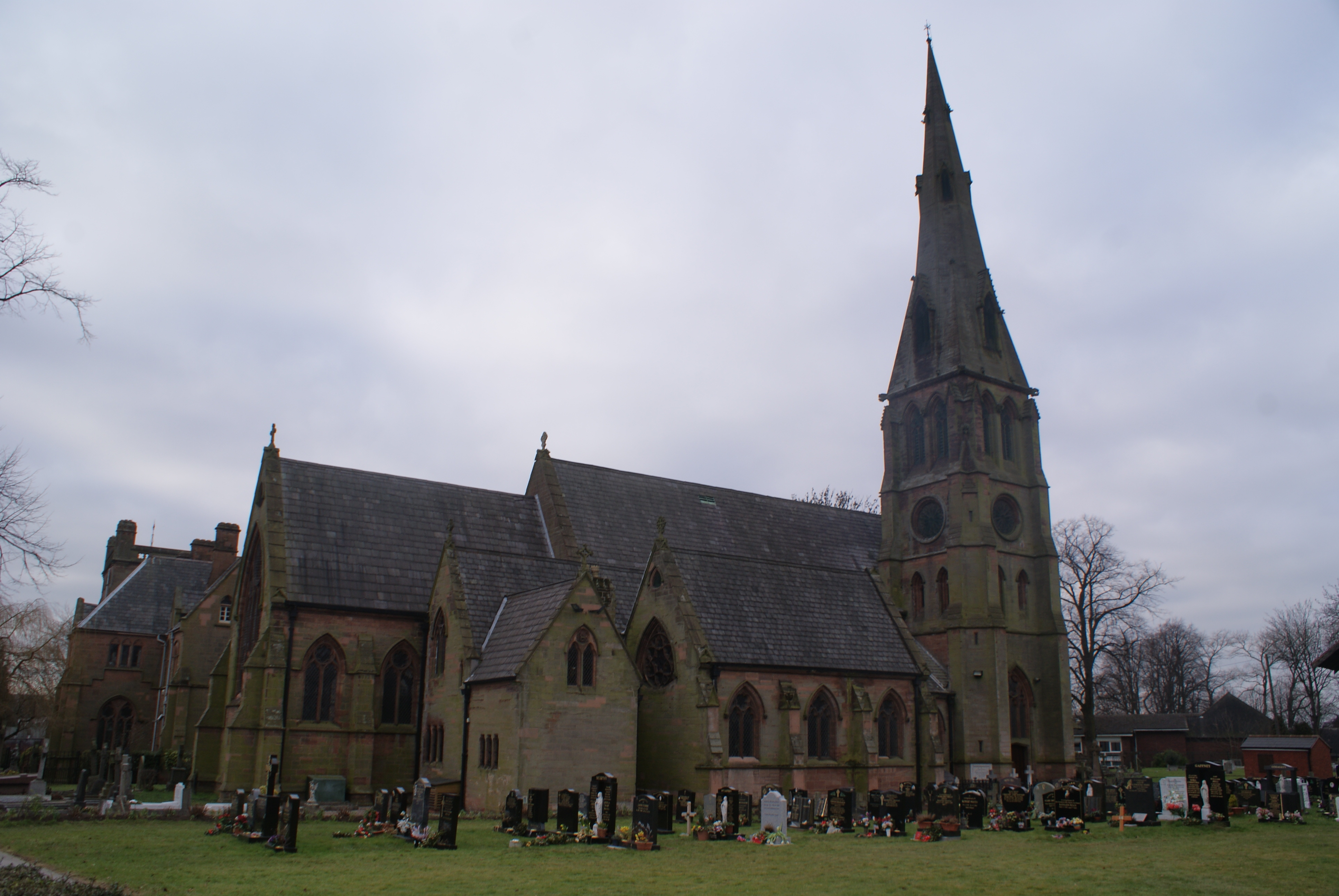 Erdington Abbey in Erdington, UK